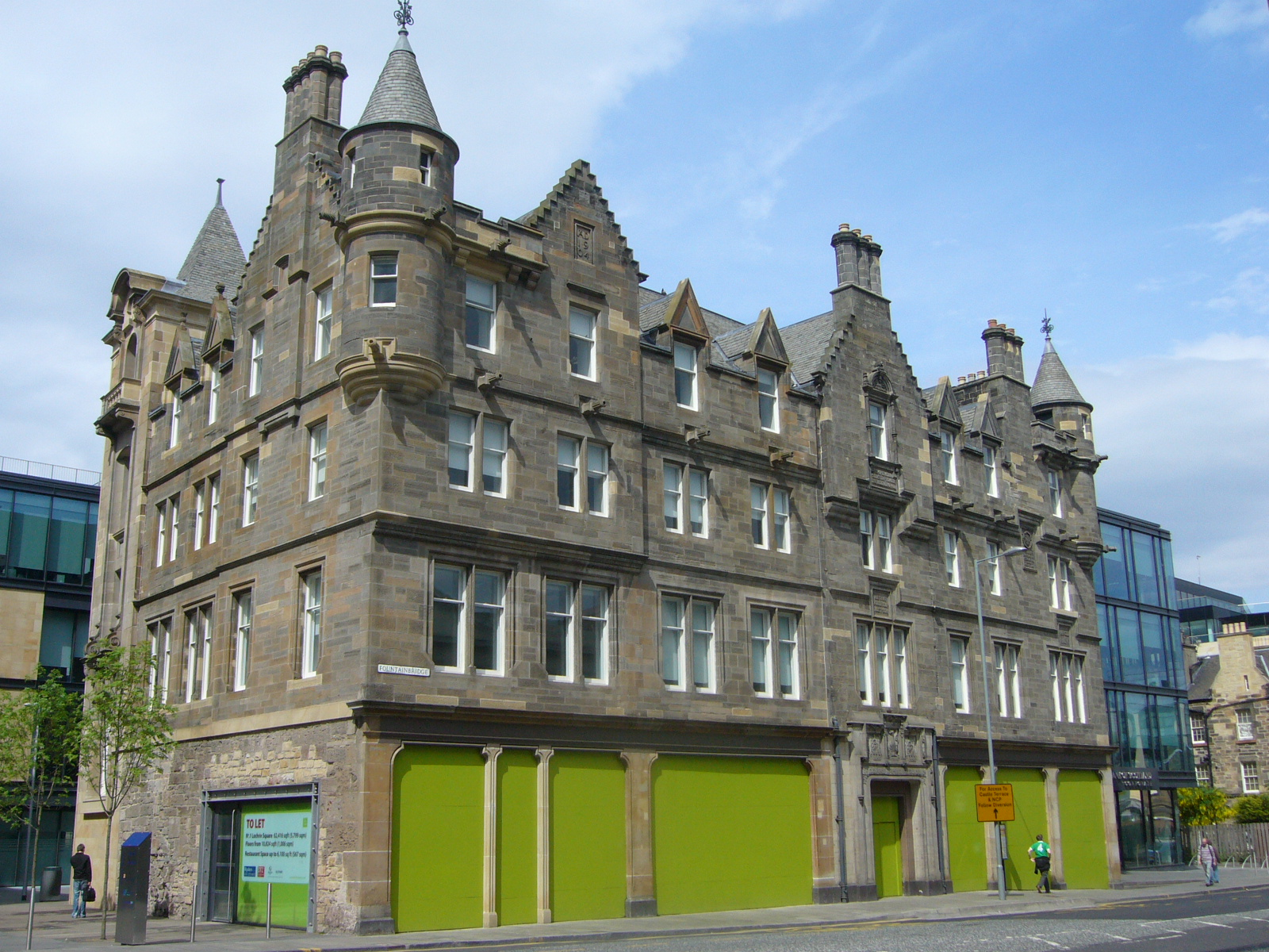 The former headquarters of the St Cuthbert's Co-operative Society, founded in 1859 by twelve local artisans and still trading under the name Scotmid. The building was deliberately sited to be near the basin of the Union Canal. The Society expanded over the next hundred years until, by 1947, it had become the city's biggest ratepayer with major outlets in the Fountainbridge and Tollcross areas, and many beyond. Increasing competition from the rise of supermarkets led to relative decline and in April 1988 demolition of the adjacent bakery and dairy complex began, opening up a large site for the private development of shops, offices and restaurants. Since this photograph was taken two new restaurants have opened on the ground floor of the building.